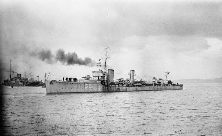 Photograph of British S class destroyer HMS Tobago.